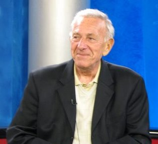 Jack Klugman in August 2005 Please acknowledge "Phil Konstantin" as the creator of this photograph.